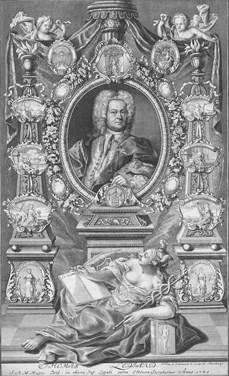 Portrait of Thomas Lediard (1685–1743), English writer, from Eine Collection verschiedener Vorstellungen in Illuminationen . . . 1724-8, unter der Direction und von der Invention Thomas Lediard's, Hamburg (1730).